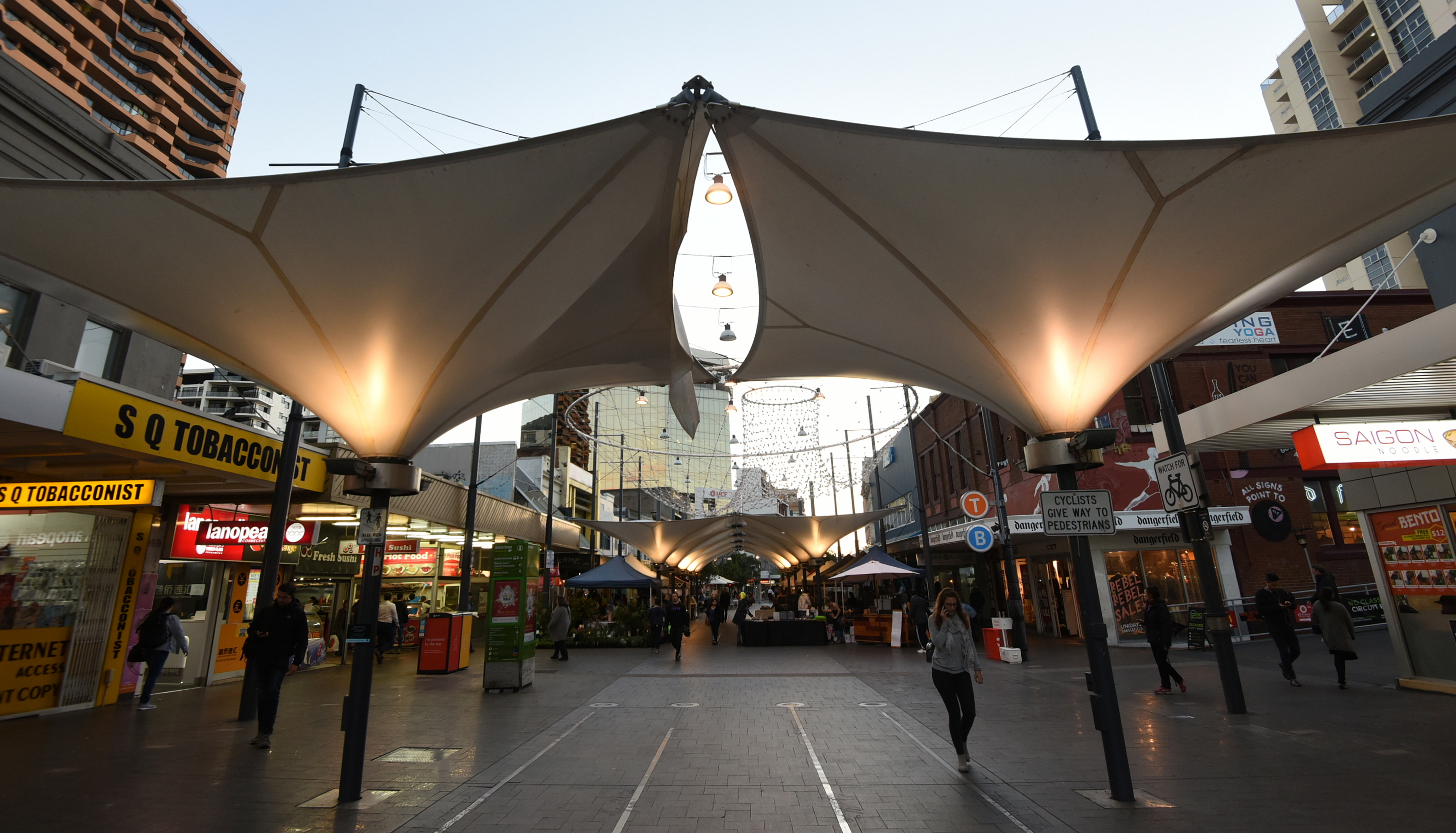 Oxford Street Mall, Bondi Junction, Sydney